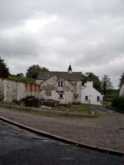 Part of the mill complex at Old Bridge of Urr. This building to the left is the Kiln House part of the original mill complex at Old Bridge of Urr. It is now being restored as a private house. Between it and the camera was a later wooden extension which has recently been demolished. The further building to the right is the Miller's House. It was later the post office and has also recently been restored. The mills themselves (a cornmill and saw mill sharing the same wheel) are out of shot to the right.